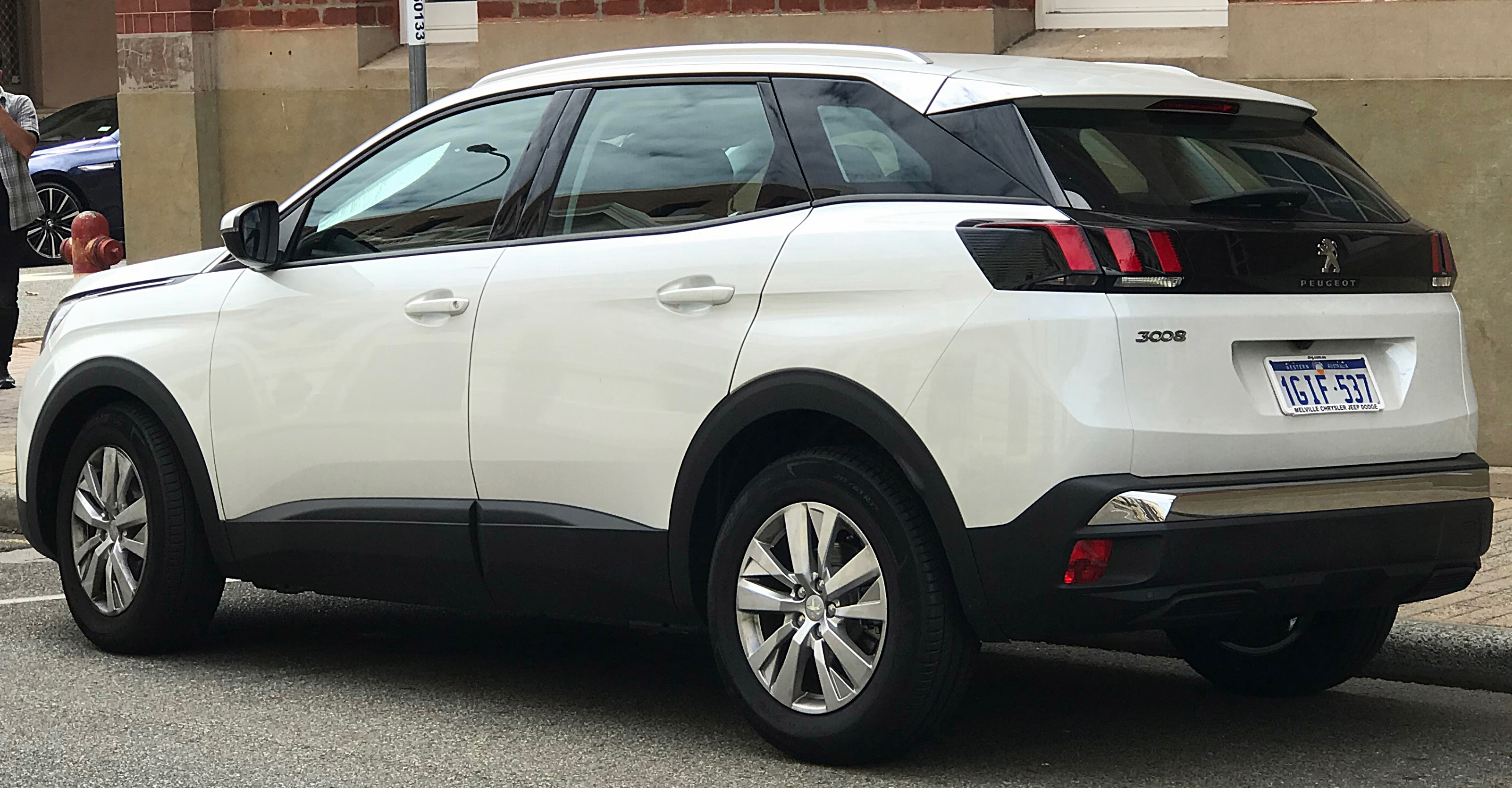 2017 Peugeot 3008 (P84 MY18) Active wagon. Photographed in Fremantle, Western Australia, Australia.